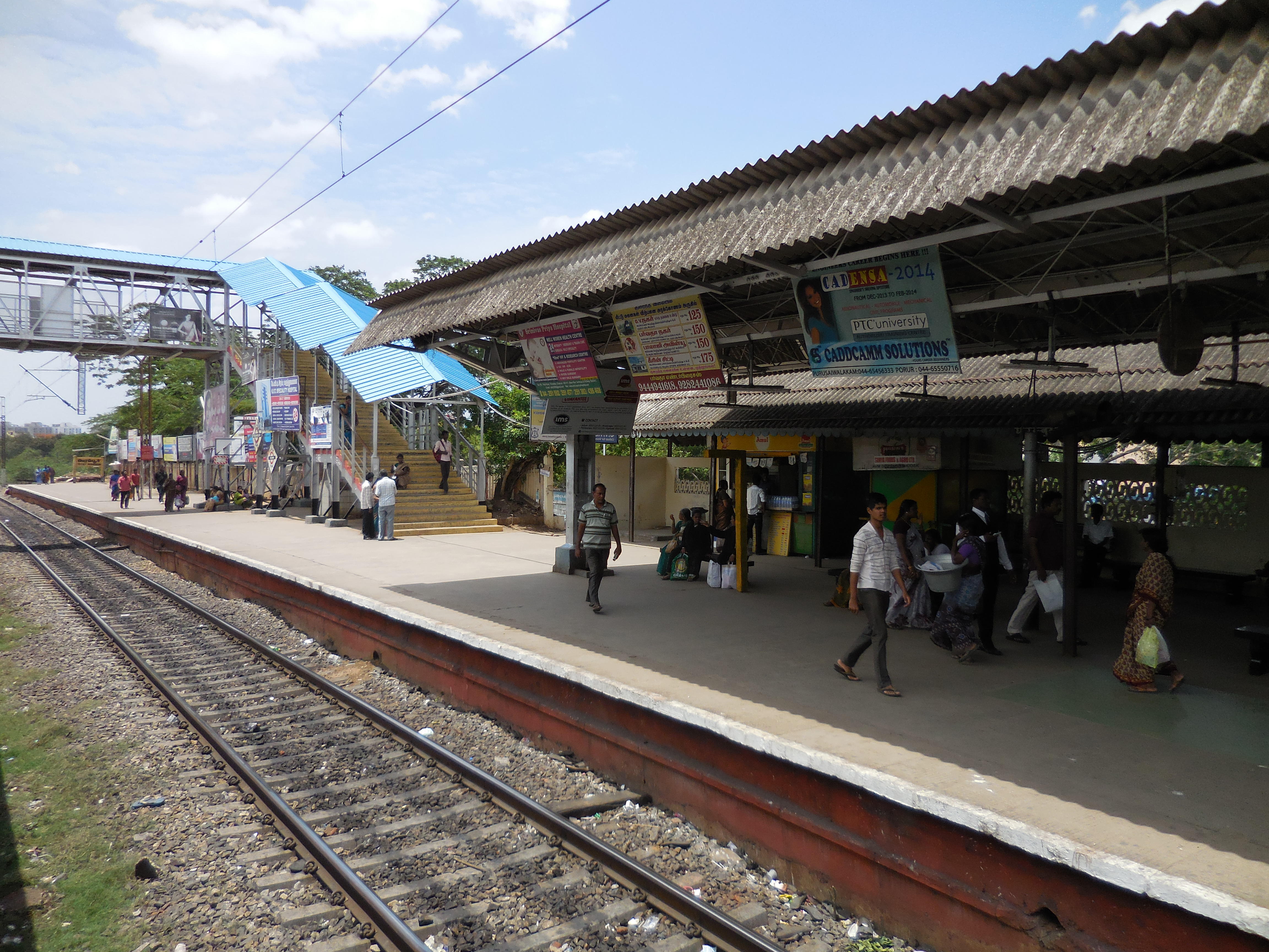 Perambur railway station, Chennai, view towards east, taken on 15 July 2014 at noon.